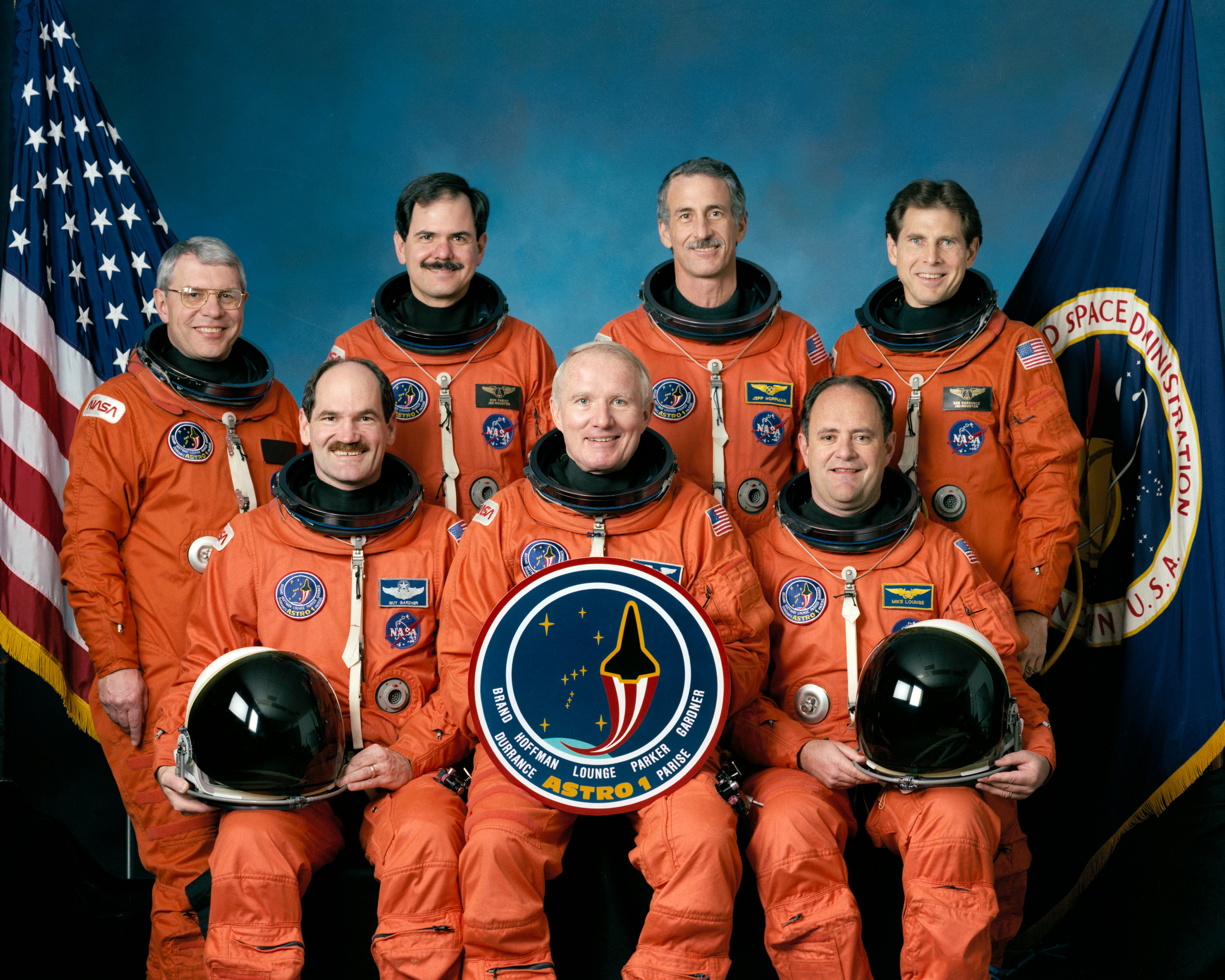 The five astronauts and two payload specialists assigned to NASA's STS-35 mission, scheduled aboard Columbia, Orbiter Vehicle (OV) 102, in the spring of this year, pose for their crew portrait. Astronaut Vance D. Brand, center front and holding STS-35 insignia, making his fourth flight in space and his third STS flight, will serve as mission commander. he is flanked on the front row by Pilot Guy S. Gardner and Mission Specialist (MS) John M. Lounge. On the back row (left to right) are MS Robert A.R. Parker, Payload Specialist Ronald A. Parise, MS Jeffrey A. Hoffman, and Payload Specialist Samuel T. Durrance. The crewmembers are wearing their orange launch and entry suits (LESs).